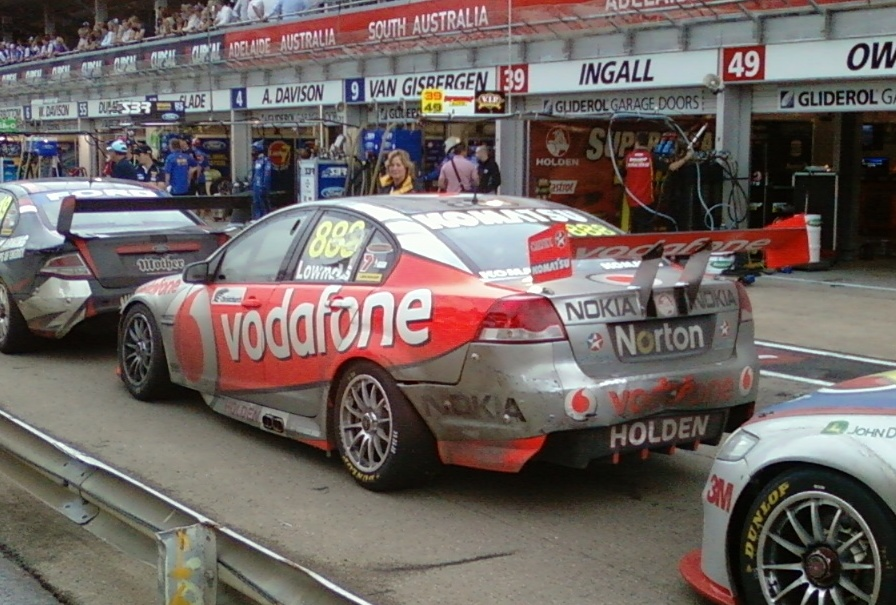 The TeamVodafone entered Holden VE Commodore of Craig Lowndes at the 2011 Clipsal 500 Adelaide.